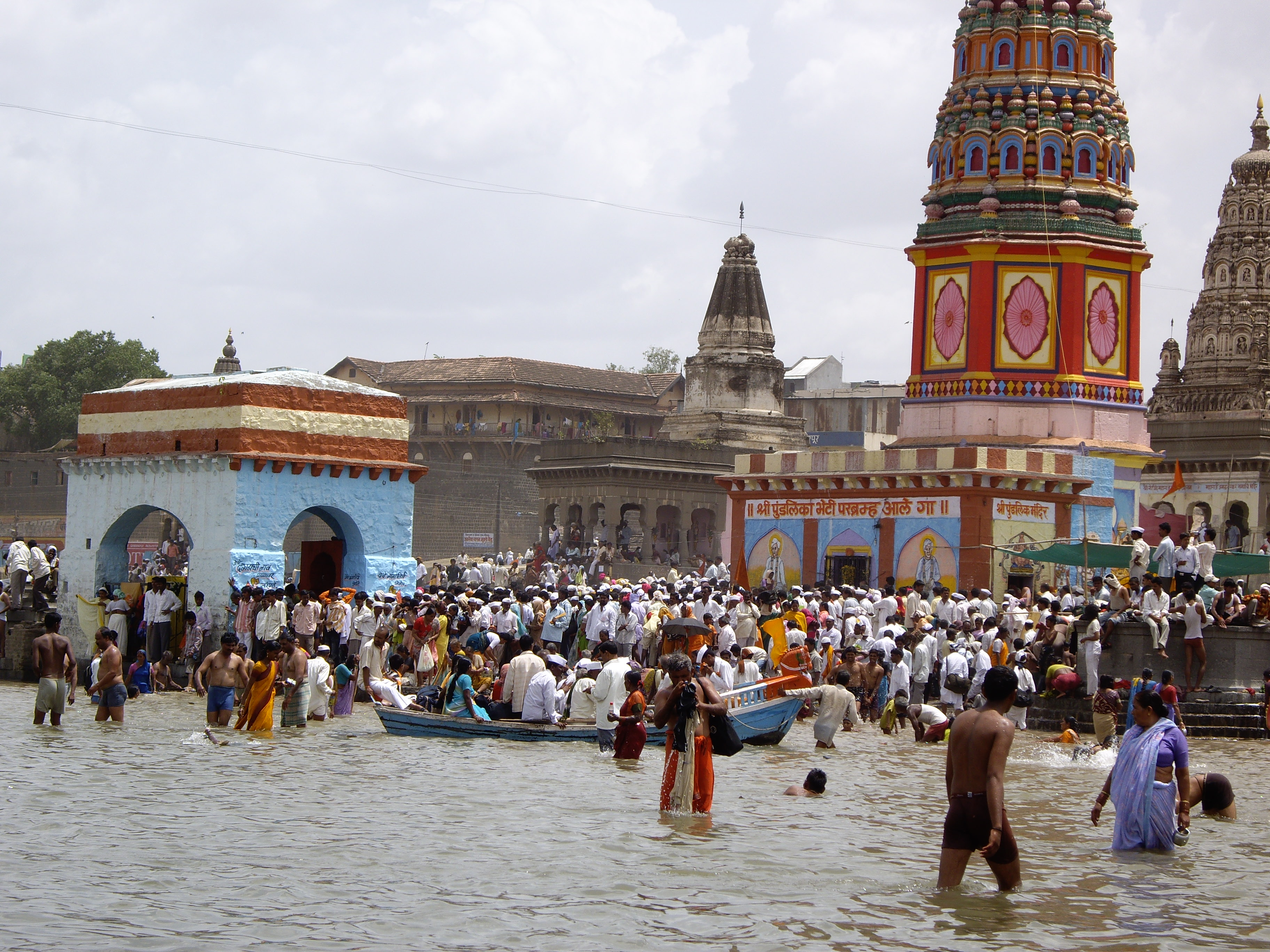 Pandharpur receives up to 1 million visitors during pilgrimage peak (Aashadhy) of July-August. This was taken on 13.7.2008. Photo by Yaniv Malz in mid 2008.